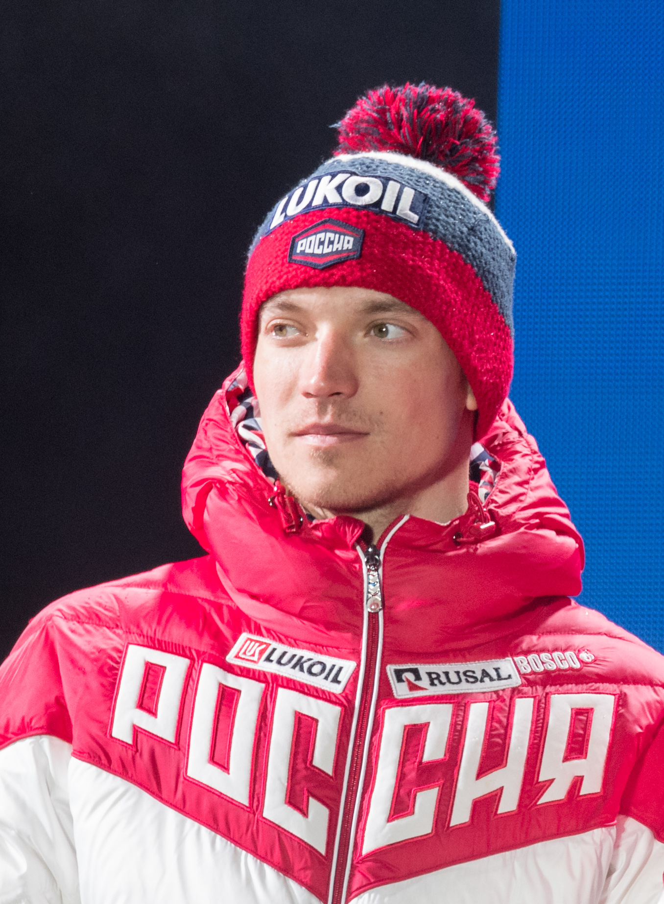 FIS Nordic World Ski Championships Seefeld 2019 - Medal Ceremony at the Medal Plaza. Picture shows Andrey Larkov (RUS).